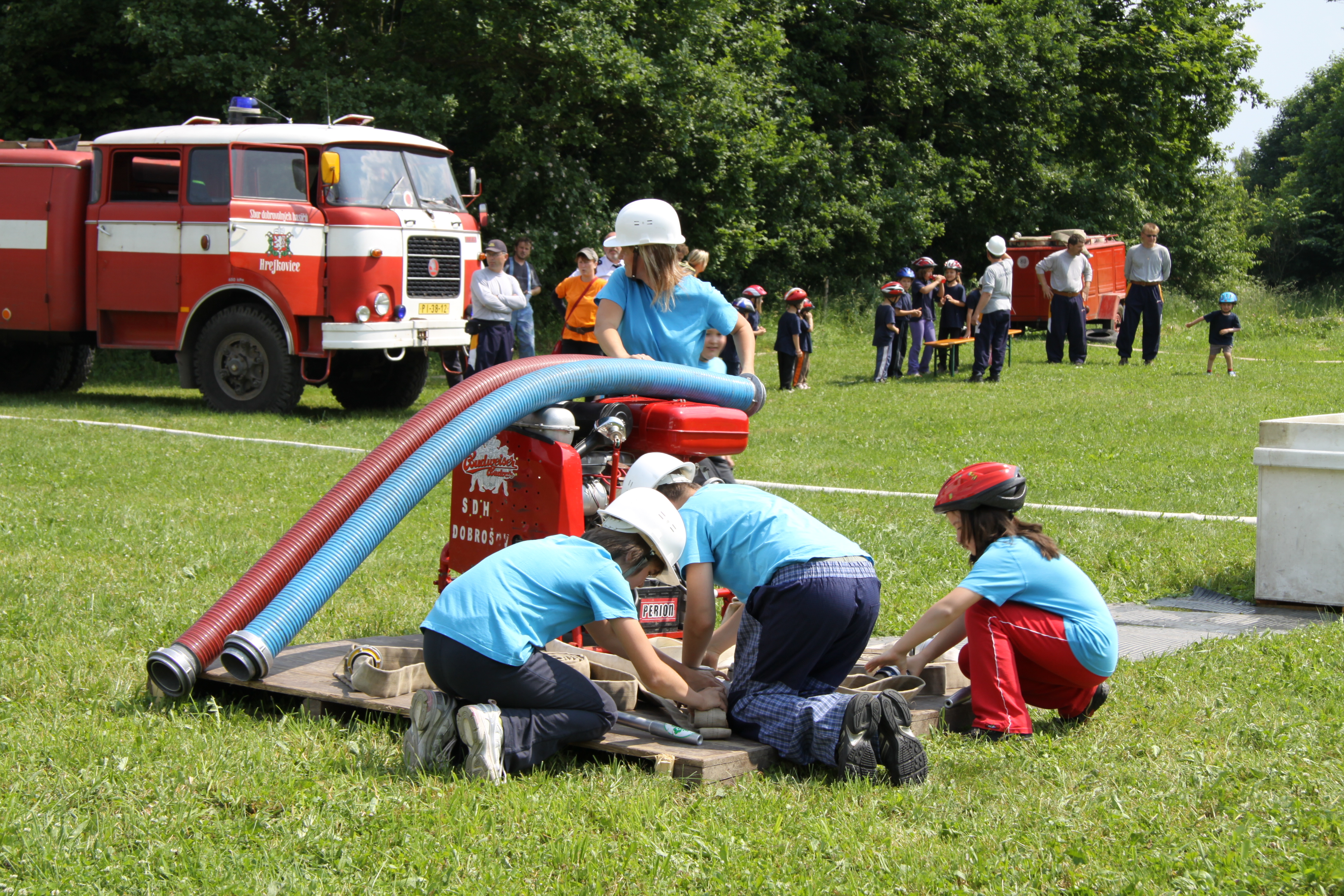 Firefighter games in Hrazany village, Písek District, Czech Republic - Google Maps - Google Earth